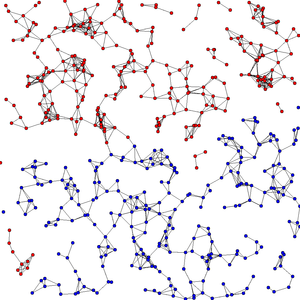 Image of a biparted graph